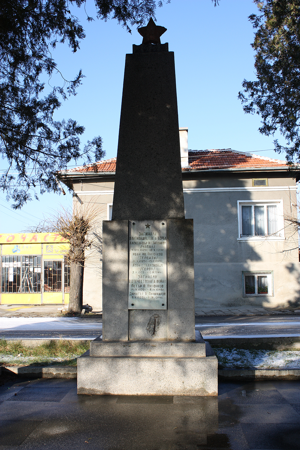 Monument to the partisan Chapay in Dabravite Паметник на партизанина Чапай в Дъбравите